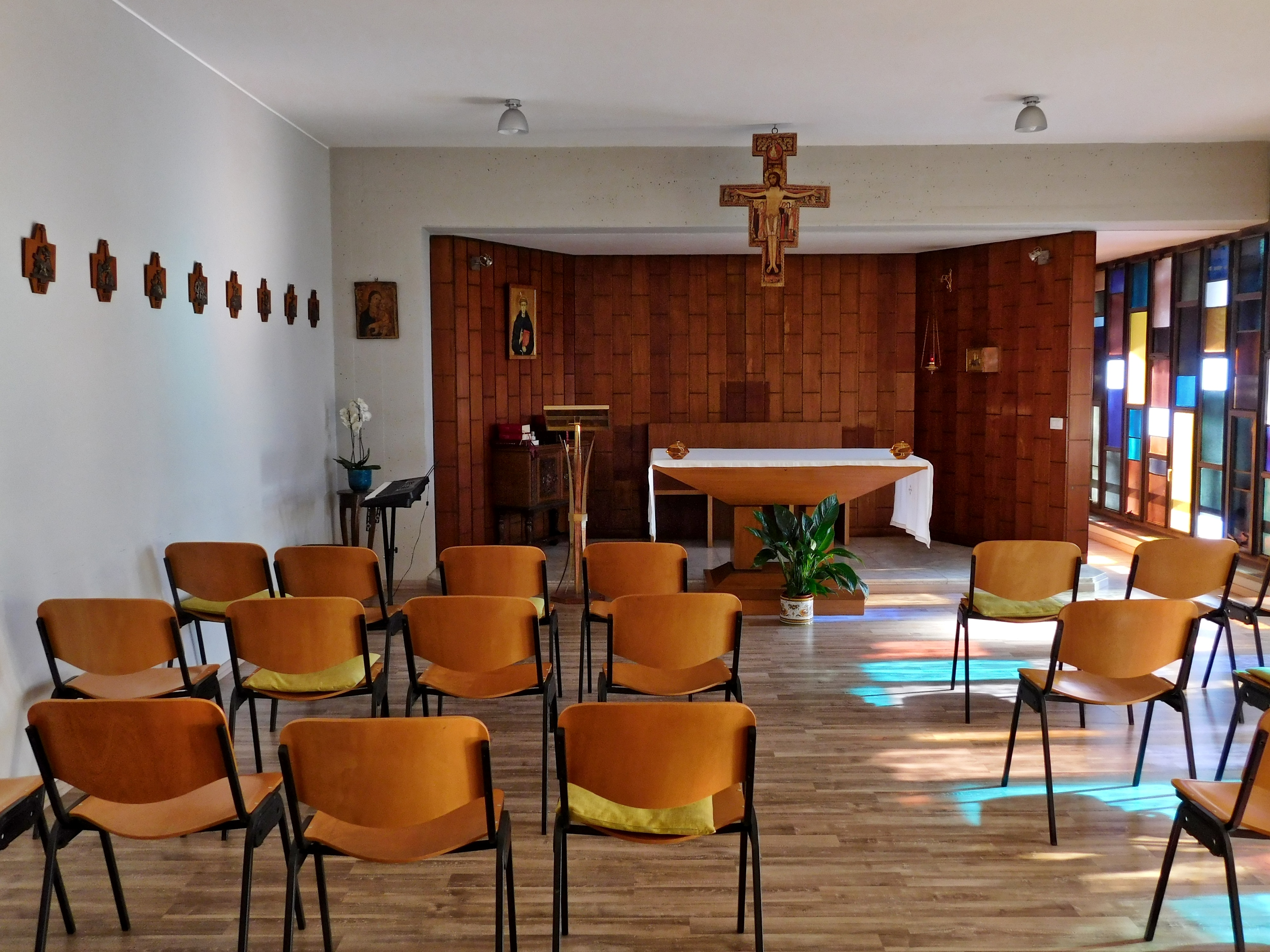 Rome, Pontifical College of Theology 'St. Bonaventure' - St. Anthony's chapel